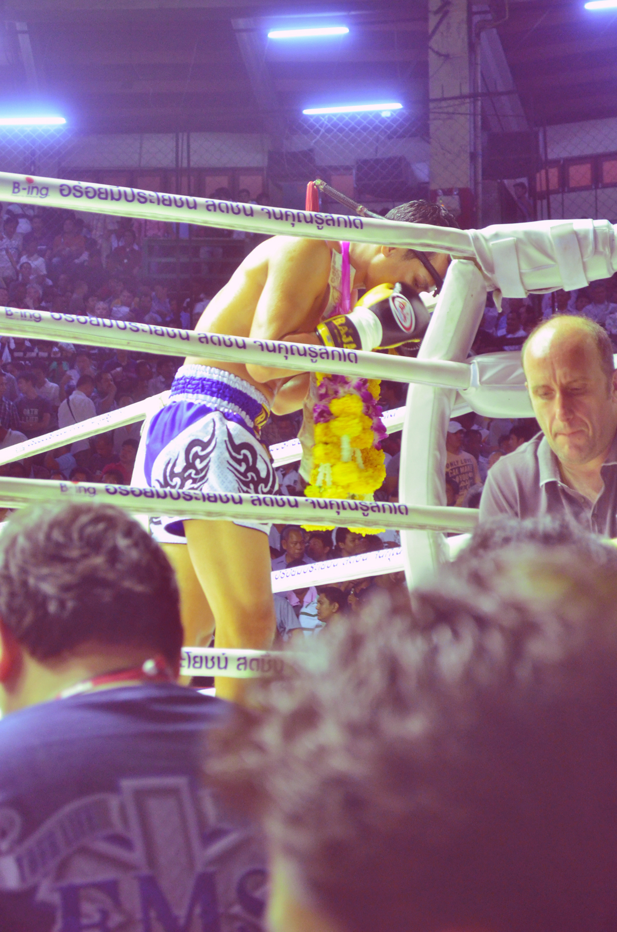 Rungrat Naratrikoon